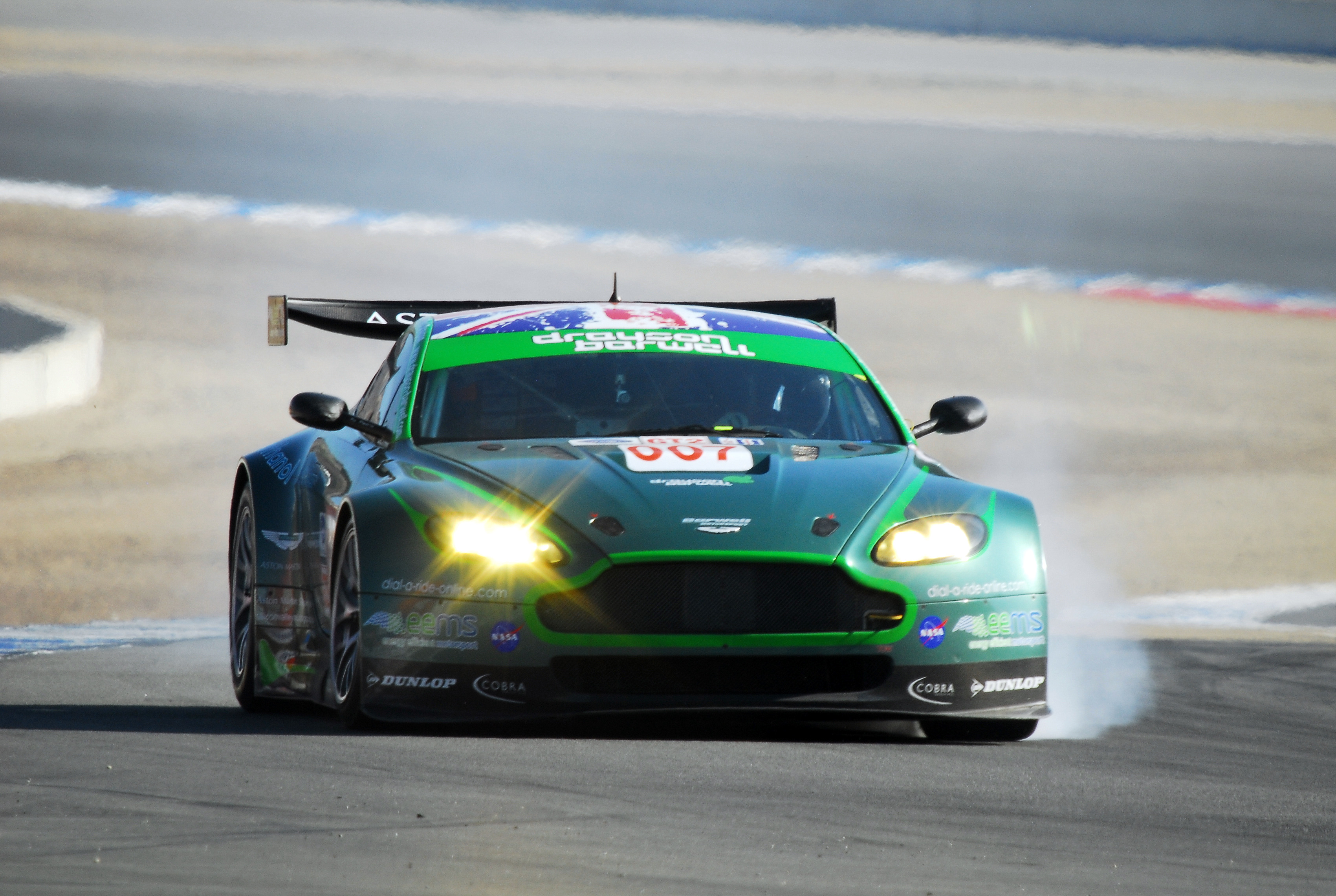 The Drayson-Barwell Aston Martin V8 Vantage GT2 at the 2008 Monterey Sports Car Championships.